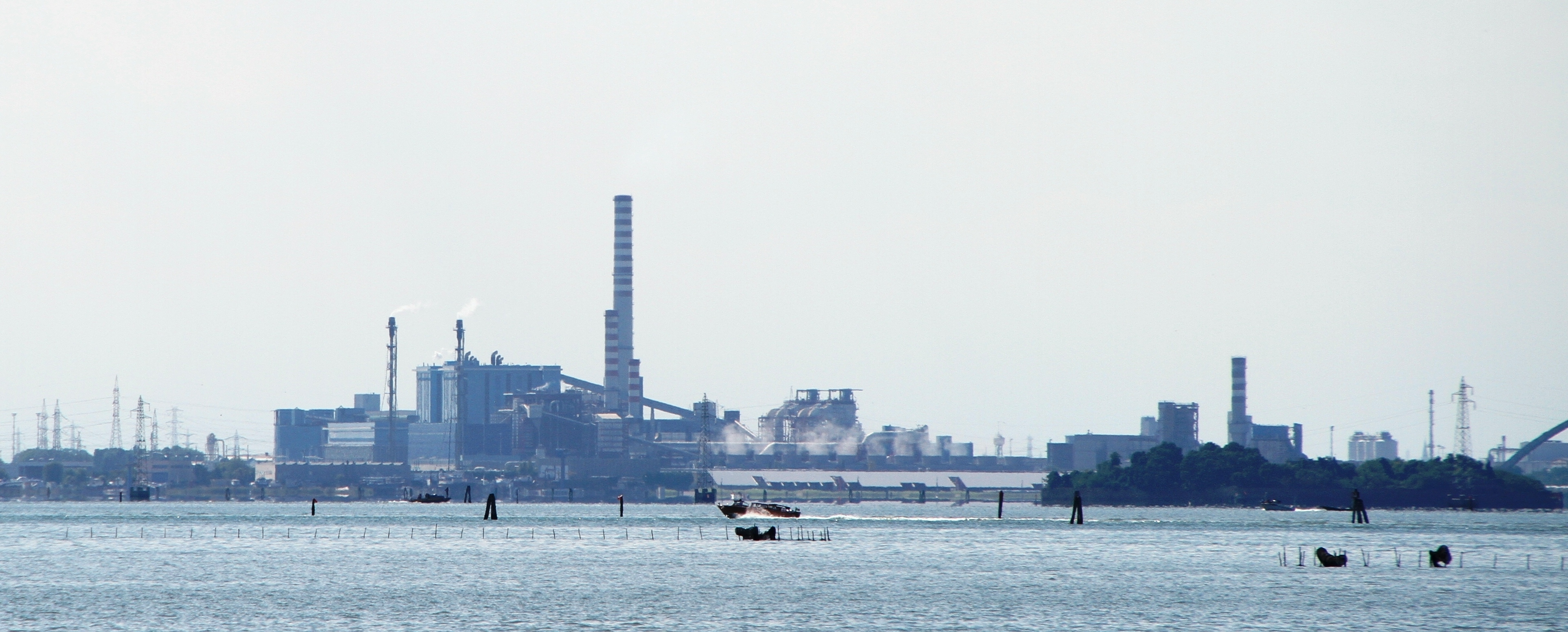 The large thermal Power plant in Mestre-Fusina, operated by ENEL. Just west of Venice, Italy